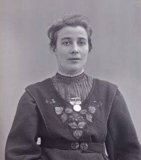 Rose Emma Lamartine Yates. This picture was taken by Colonel Linley Blathwayt and was stored on glass negatives. The Blathwayt's home of Eagle House way the home of Linley, Emily and Mary Blathwayt who all actively supported the suffragette cause. Nearly all the prominient UK suffragettes stayed with them and these photos and dozens of trees were planted to commemorate their visits. Col. Linley Blathwayt took these pictures between 1908 and 1912. He died in 1919. The pictures are made available in larger formats by .